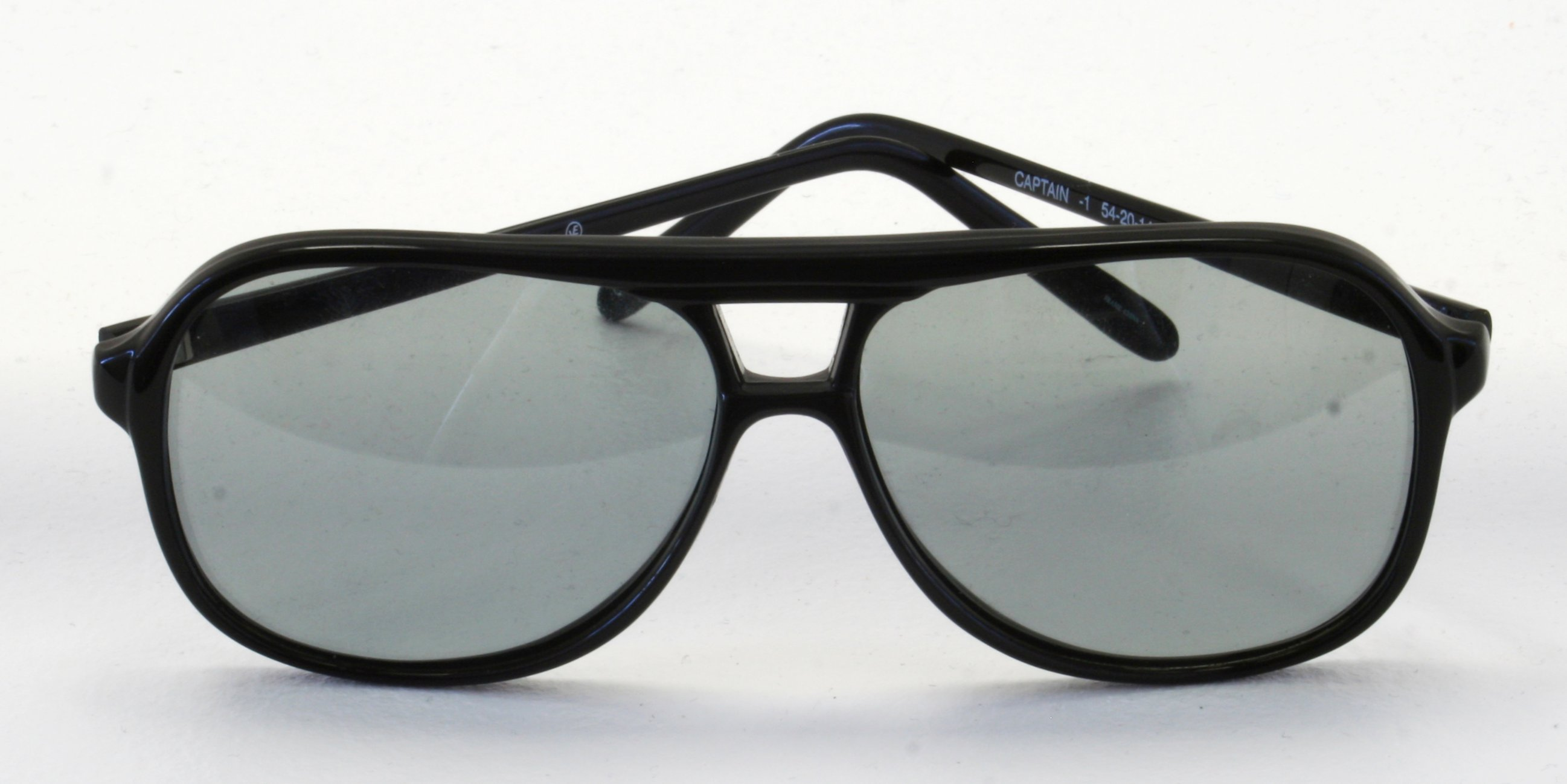 Circularly polarized glasses, used for stereoscopic viewing.